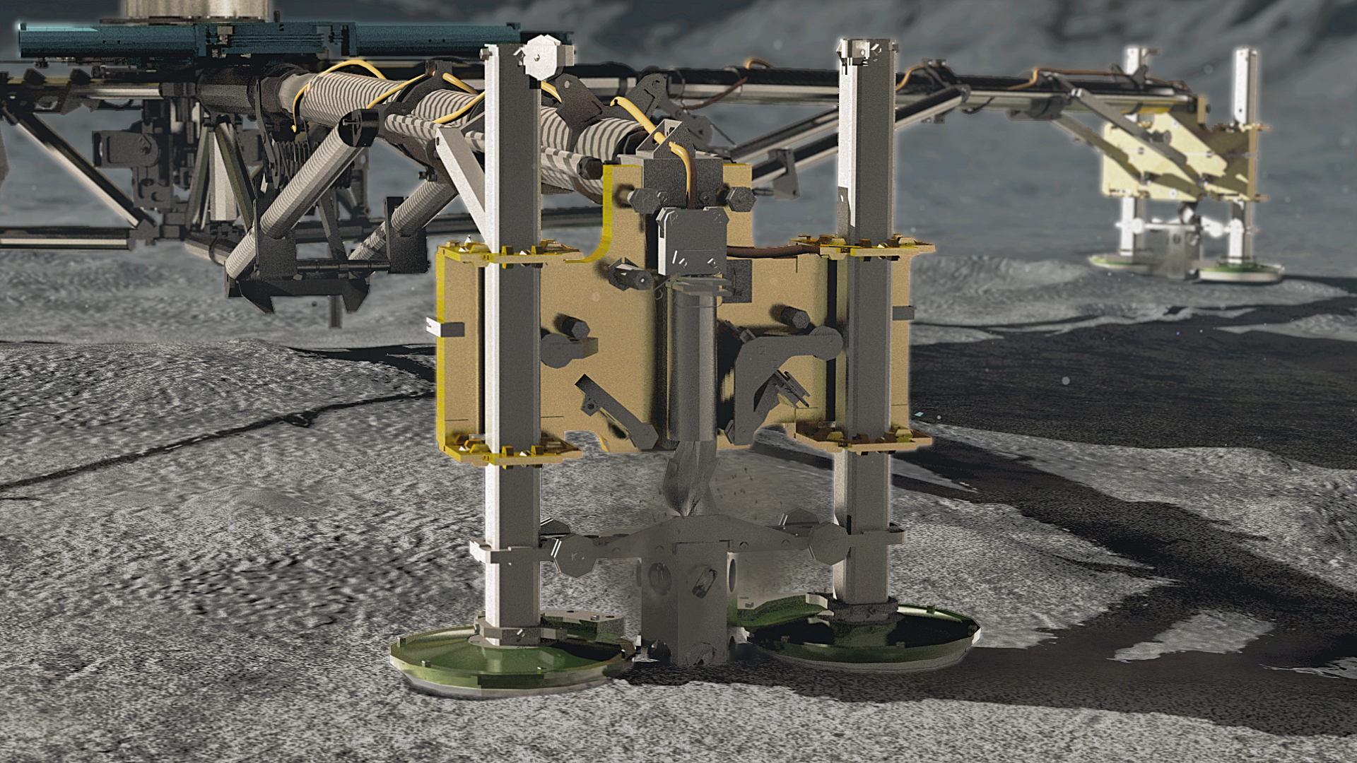 Artist's impressions of Philae drill Few things could be more fascinating or demanding in the history of European space travel than the Rosetta comet mission. The lander, Philae, will separate from its parent craft on 11 November 2014, touch down on the comet and immediately fire harpoons to anchor itself on the surface. The two spacecraft will then accompany the comet on its month-long journey to the point at which it is closest to the Sun.